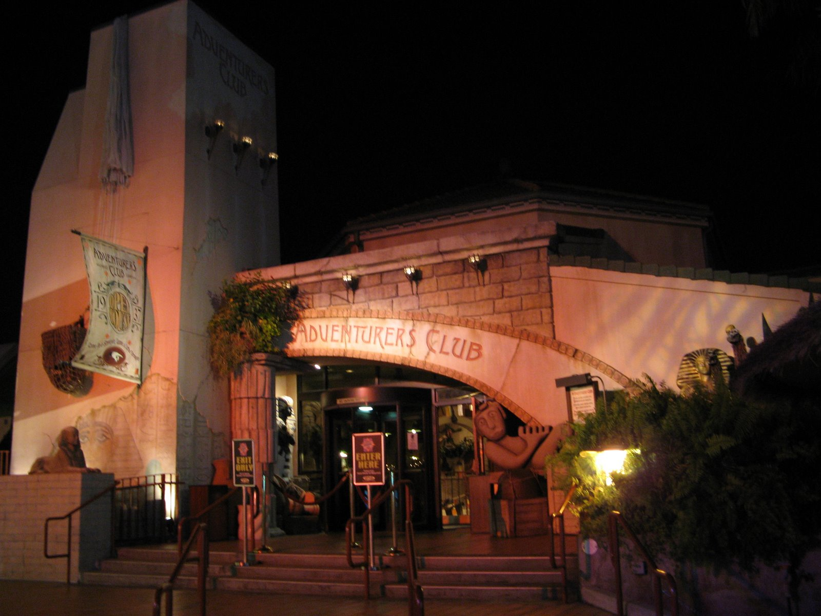 Exterior view of Walt Disney World Pleasure Island Adventuers Club